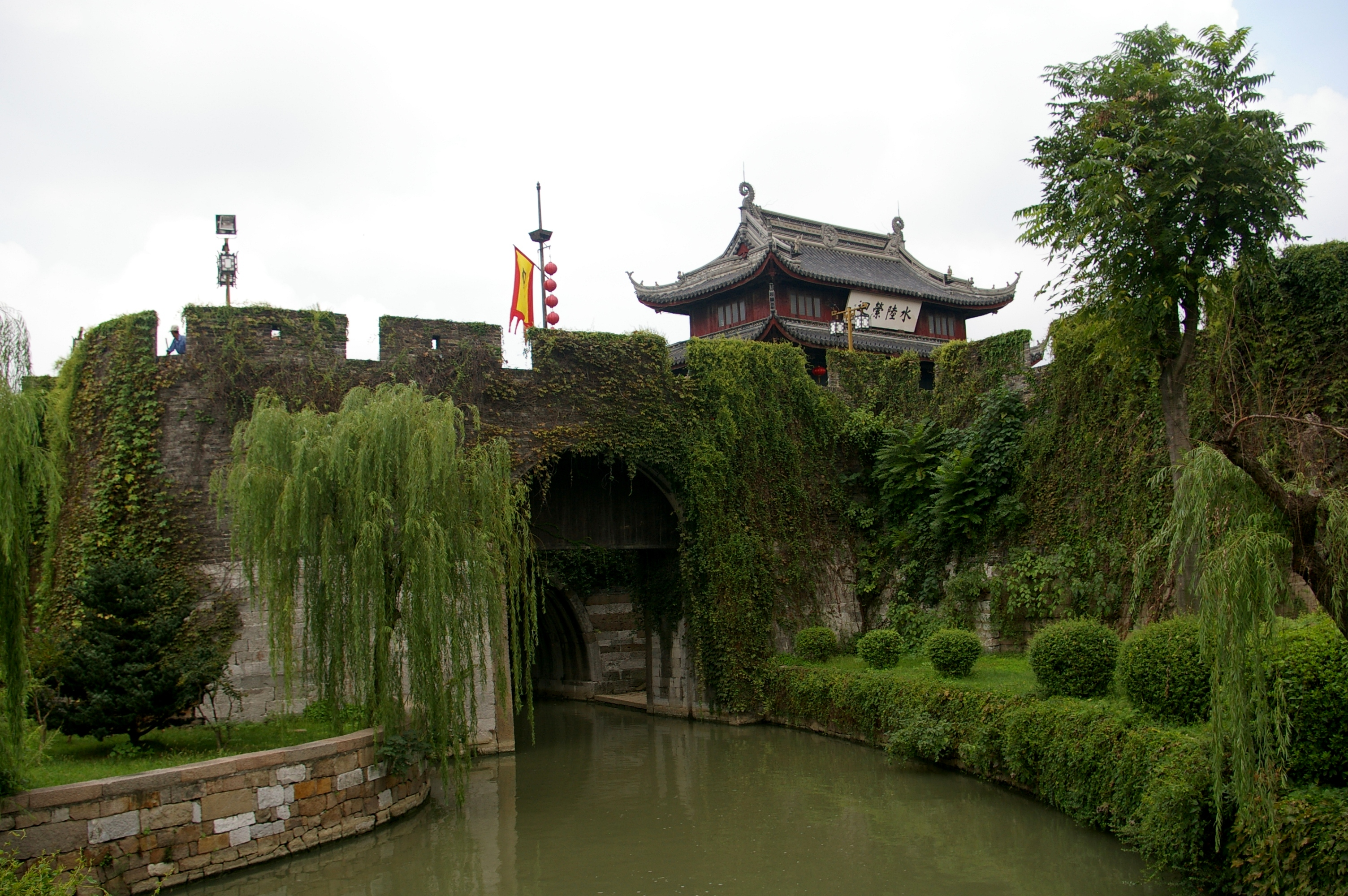 The Pan Gate in Suzhou